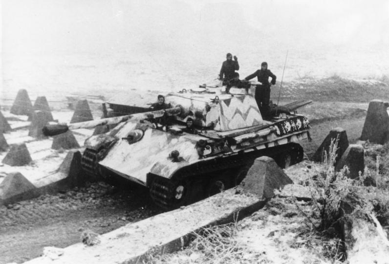 Germany January 1945, a german Panther tank is passing anti-tank obstacles of the Westwall near Weissenburg/Bergzabern